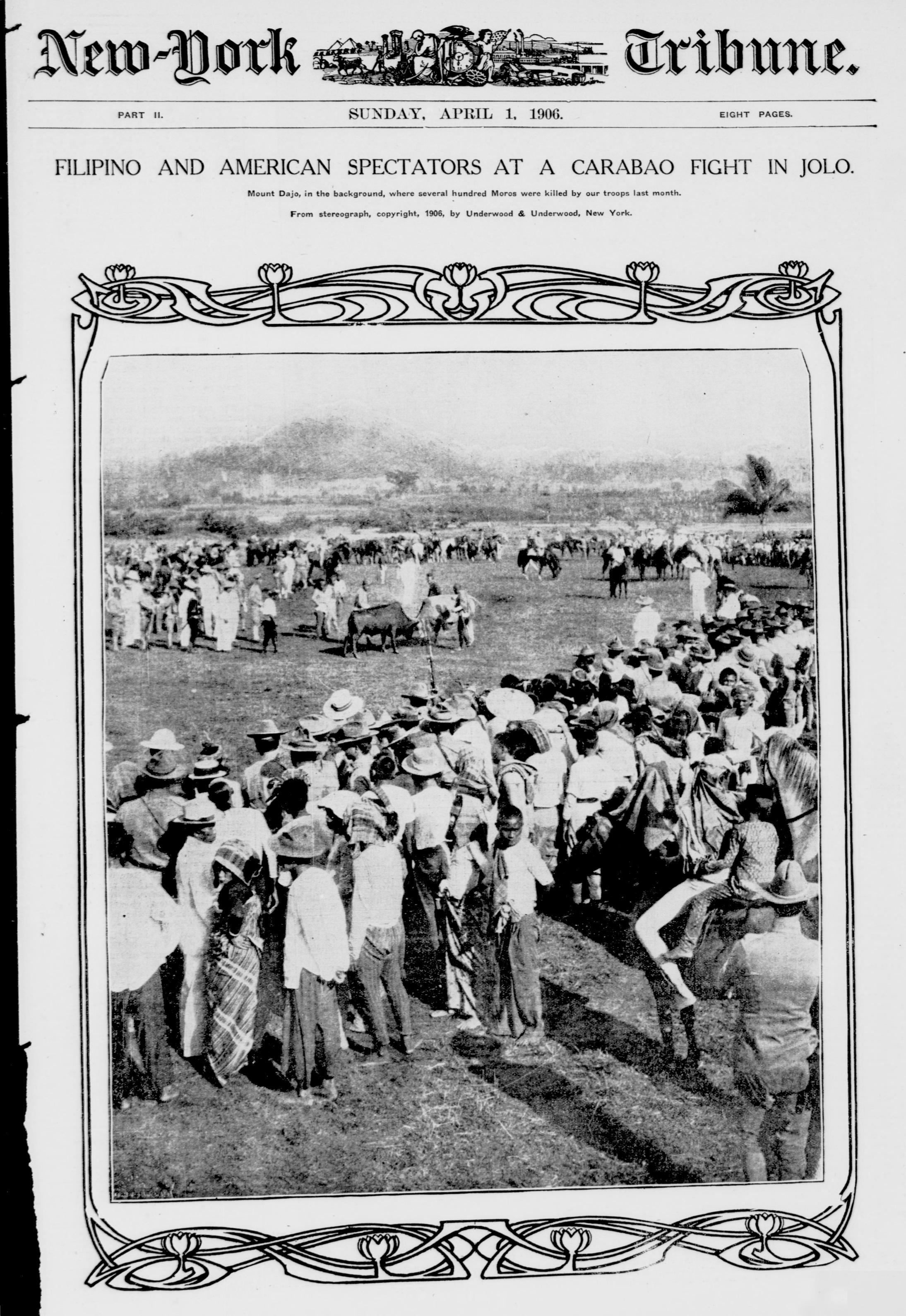 New-York tribune. (New York [N.Y.]) 1866-1924 April 1, 1906, Image 17 Notes: Cover, illustrated supplement. Format: Newspaper page, from microfilm Rights Info: No known restrictions on reproduction. Repository: Library of Congress, Serial and Government Publications Division, Washington, D.C. 20540 USA. Part Of: Chronicling America (Library of Congress) (DLC) - Persistent URL: More information about the Chronicling America Web site is available at